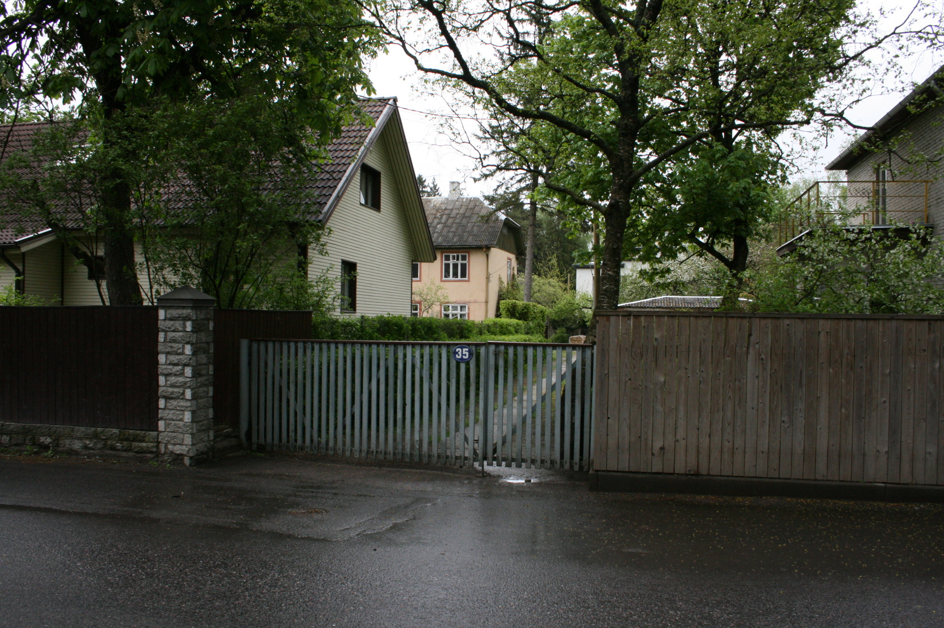 Before World War II Walter Zapp, the inventor of MINOX, lived in the beige house at the address 35 Valdeku street, Tallinn, Estonia.